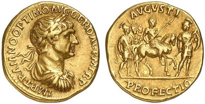 Trajan. 98-117. Aureus (Gold, 7.35 g 7), Rome, 115. IMP TRAIANO OPTIMO AVG GER DAC P M TR P Laureate, draped and cuirassed bust of Trajan to right PROFECTIO AVGVSTI Trajan, in military dress and hold spear, on horse walking to right; before him, soldier walking right, head turned back to left; behind, three soldiers walking right. BMC 512 var. Calicó 986a. Cohen 40 var. Hill 690. RIC 297 var. Very rare. Good very fine. From the collection of a Gentleman. Hill suggests that this coin records Trajan’s departure from Antioch for the East in 115.